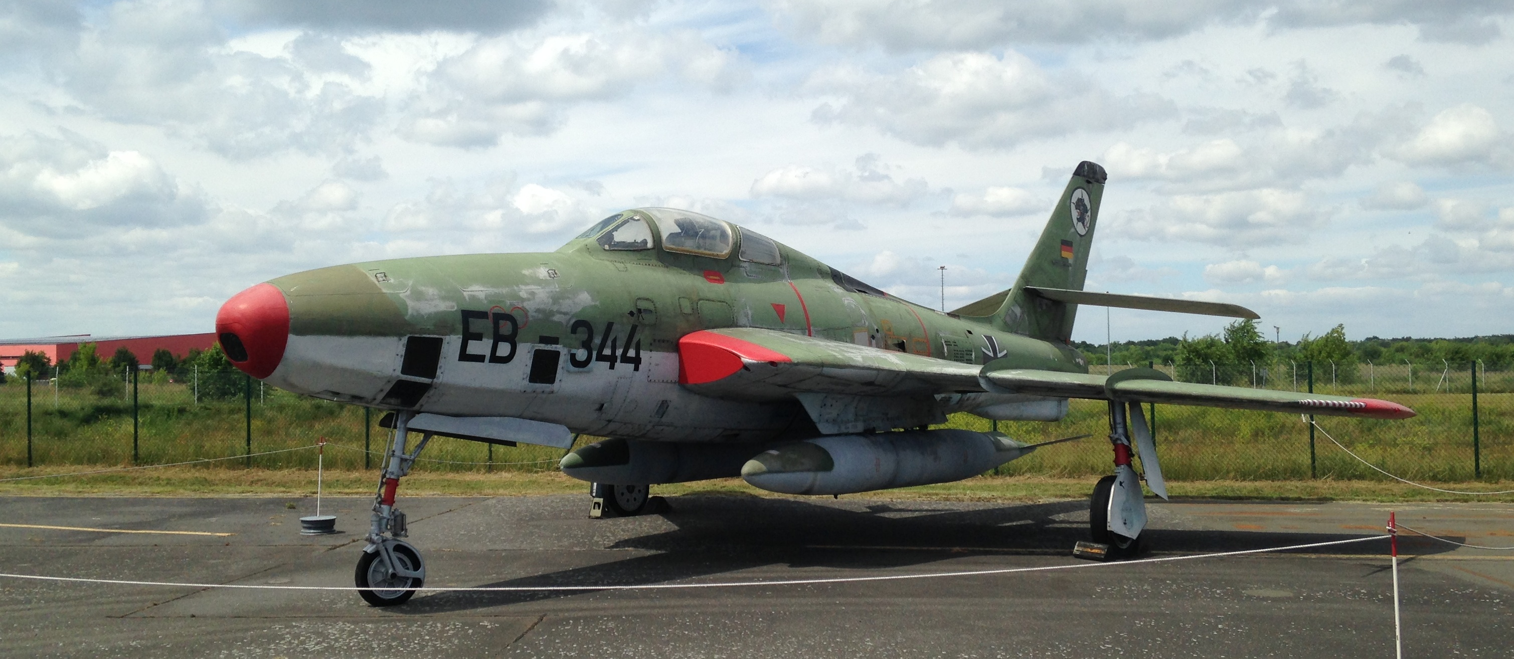 Republic RF-84F Thunderjet at Gatow airport, Berlin, Germany